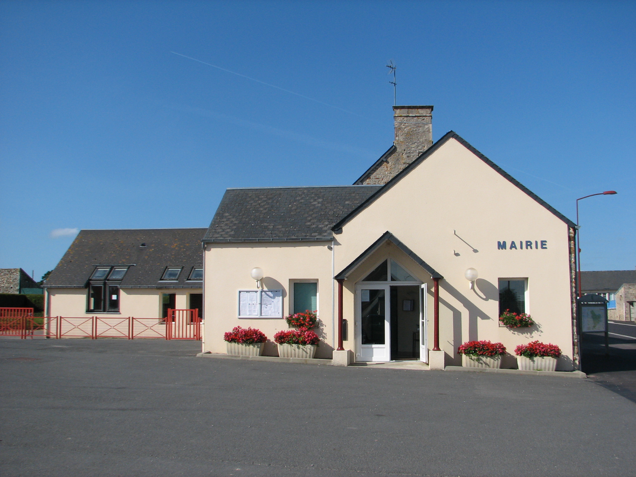 City hall Néhou